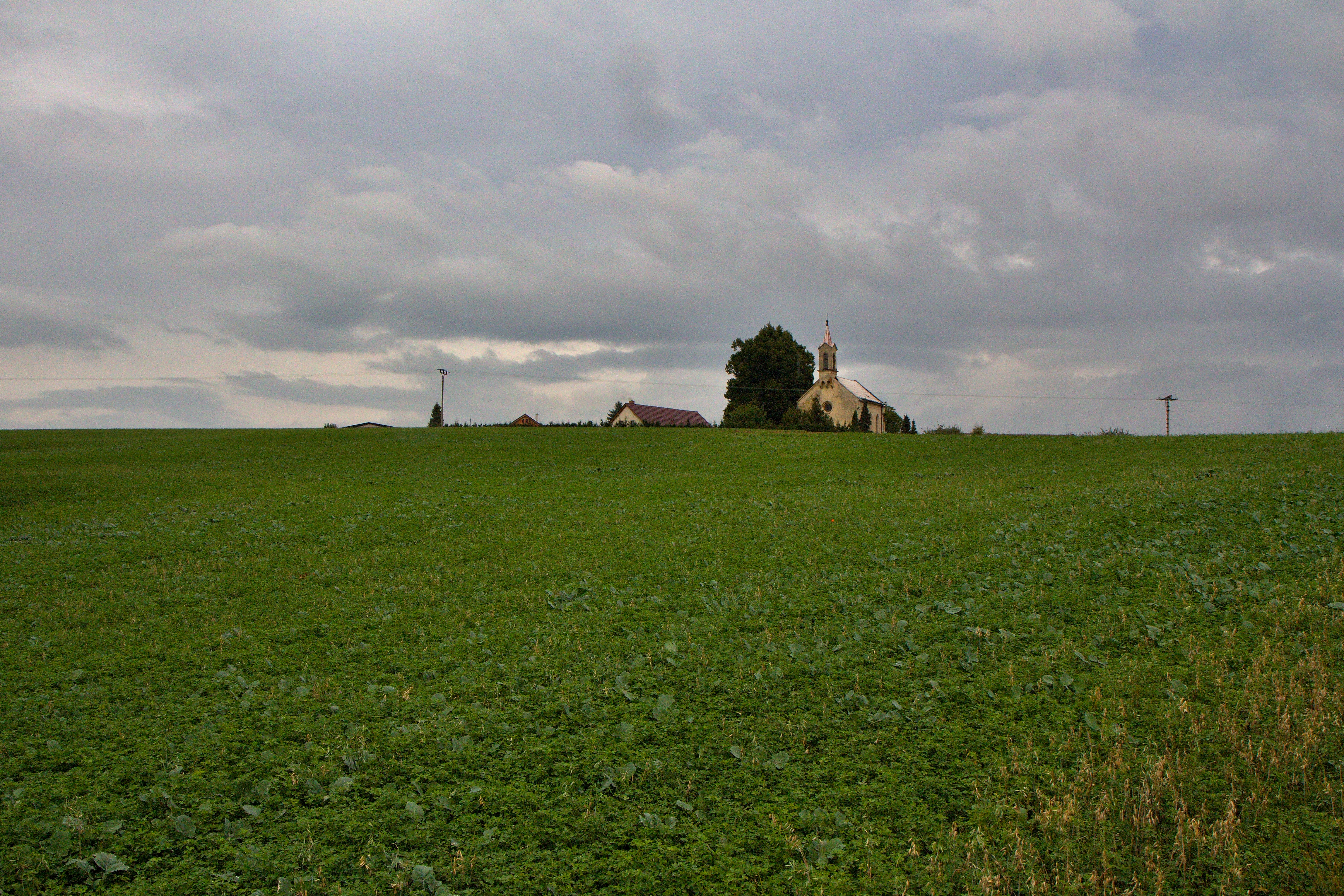 Plateau Hradsko